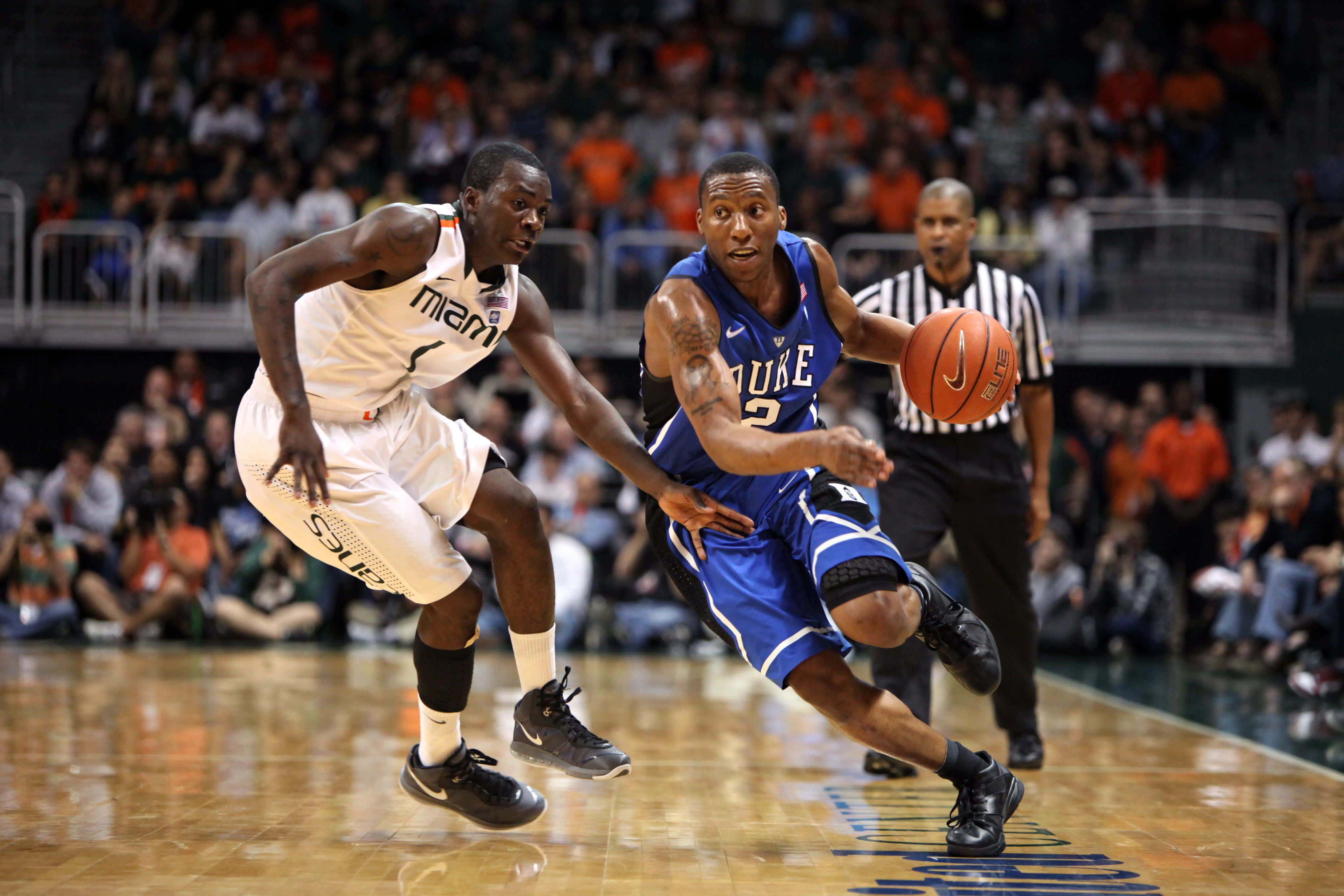 FEB. 13, 2011-Coral Gables, Florida, U.S - Duke Blue Devils guard Nolan Smith (2) drive past Miami Hurricanes guard Durand Scott (1) during the game between Miami and Duke at Bank United Center in Coral Gables, Florida.The Duke Blue Devils defeated the Miami Hurricanes 81-71